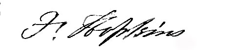 General Frederic Hopkins Signature from The Franklin House Guest Register September 1854 - April 1855 which is in the private collection of H. Blair Howell